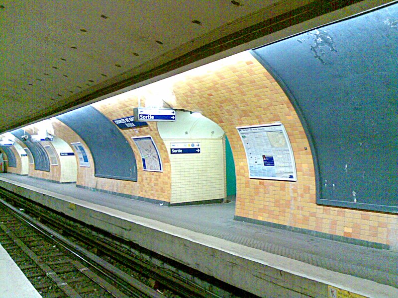 Train hall of Paris Métro in Mouton-Duvernet style. Étoile station.